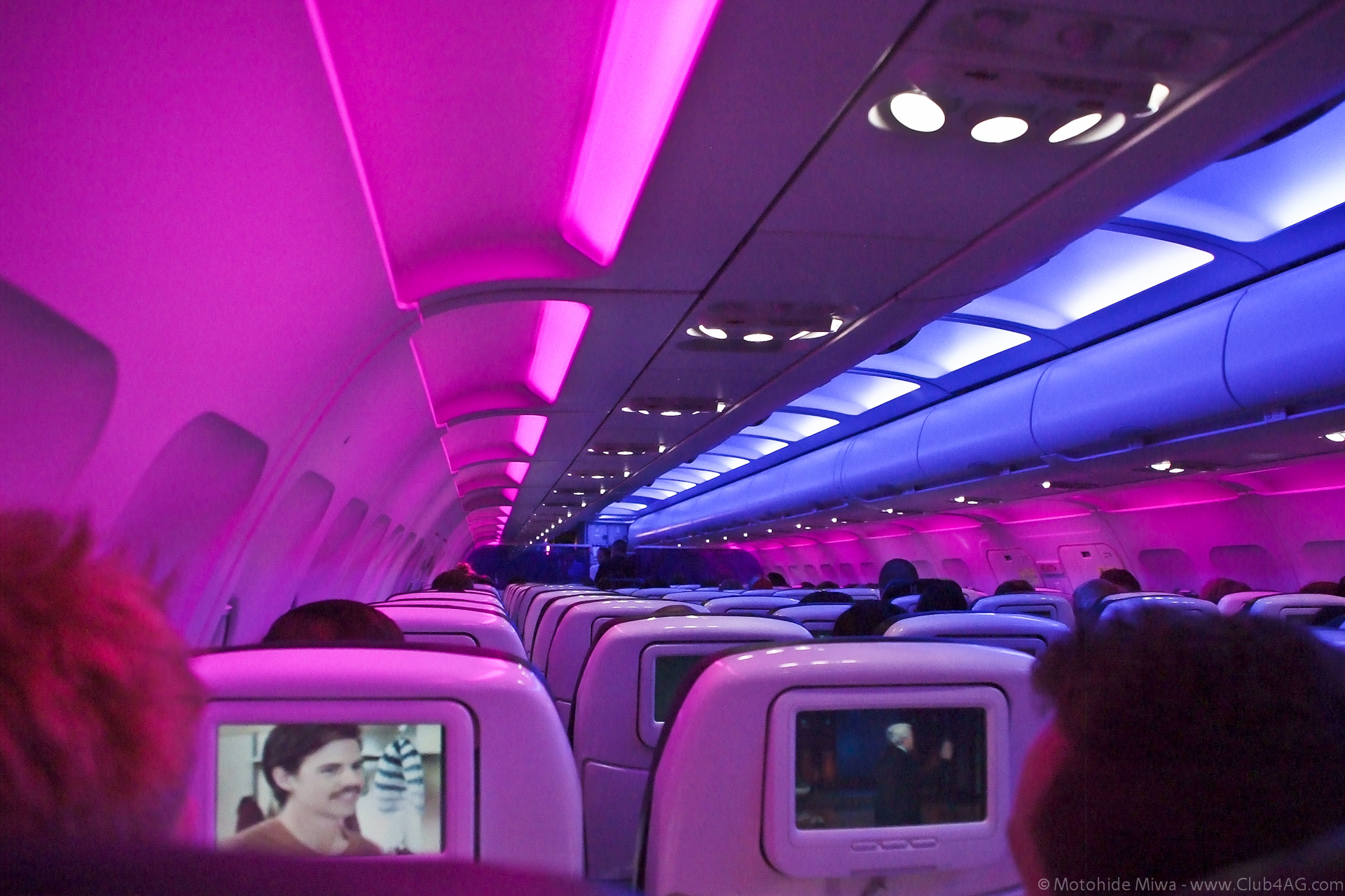 Virgin America Airlines A320 Cabin